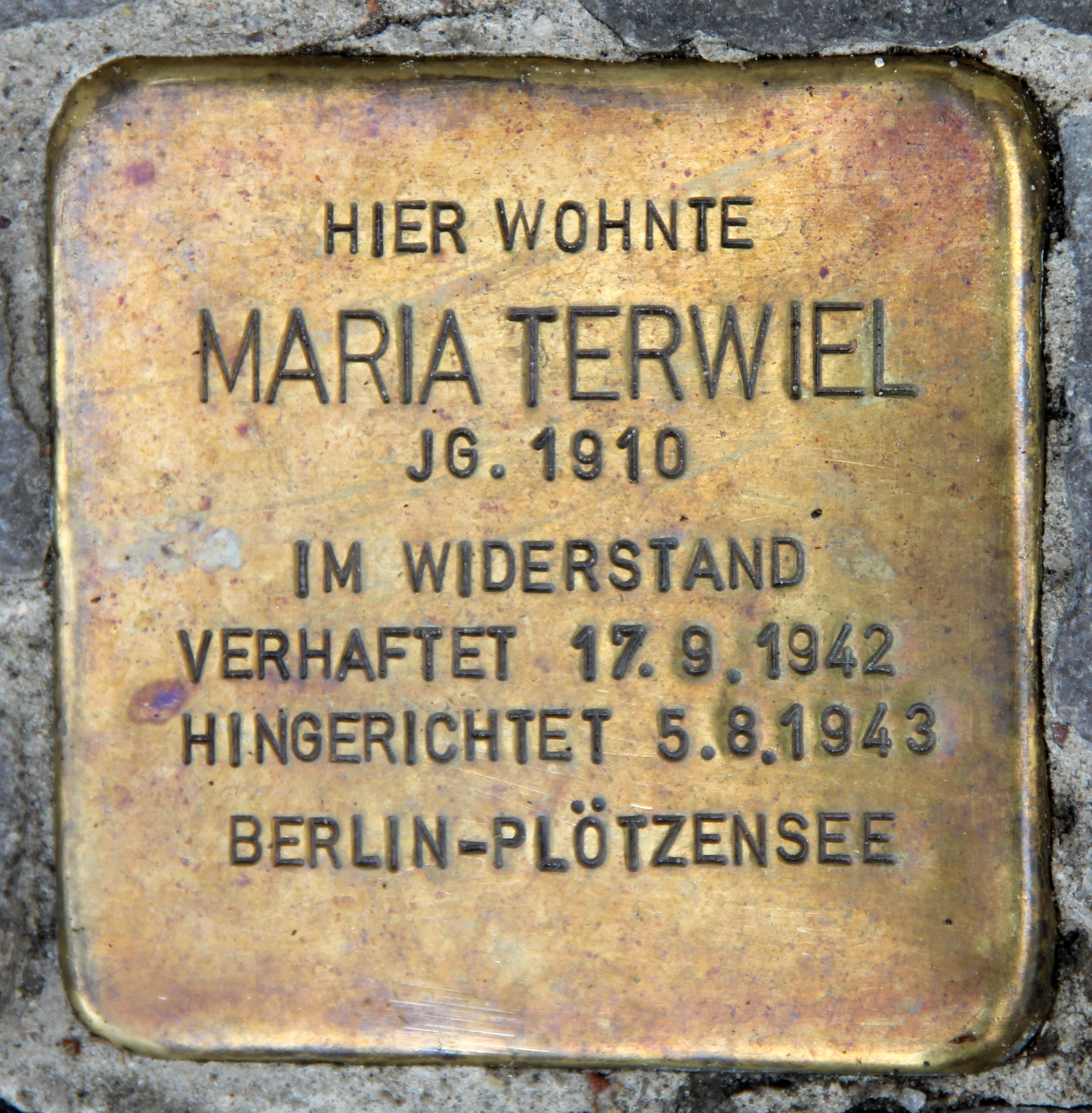 "Stolperstein" (stumbling block), Maria Terwiel, Lietzenburger Straße 72, Berlin-Charlottenburg, Germany